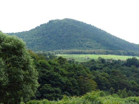 Mount Higashinomori seen from the NW, in Kazuno, Akita Prefecture, Japan.